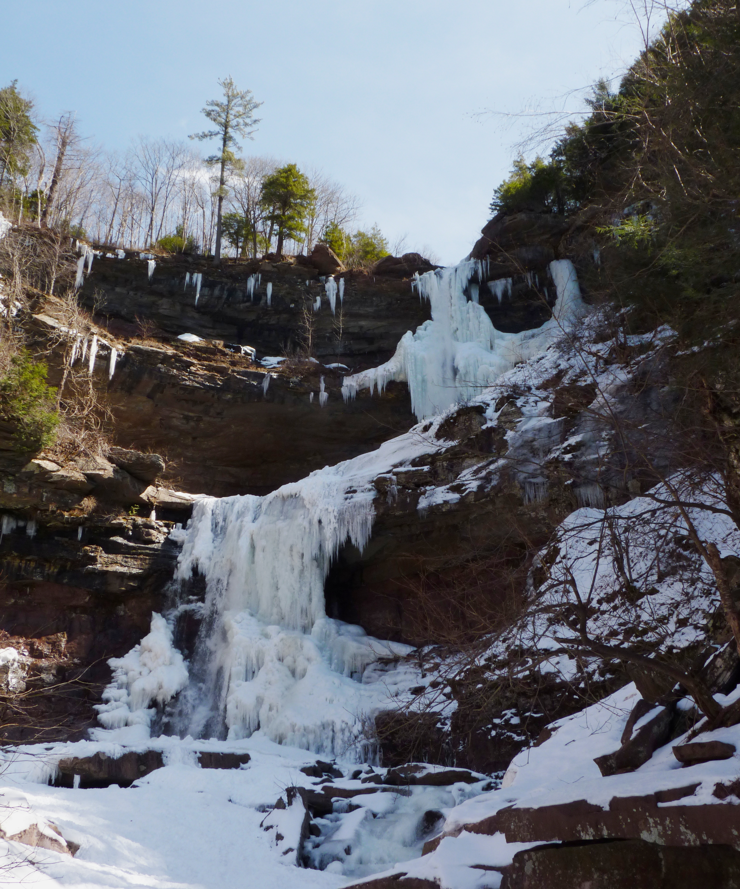 The falls made famous by Thomas Cole and others. See here for more on the cascade's history.